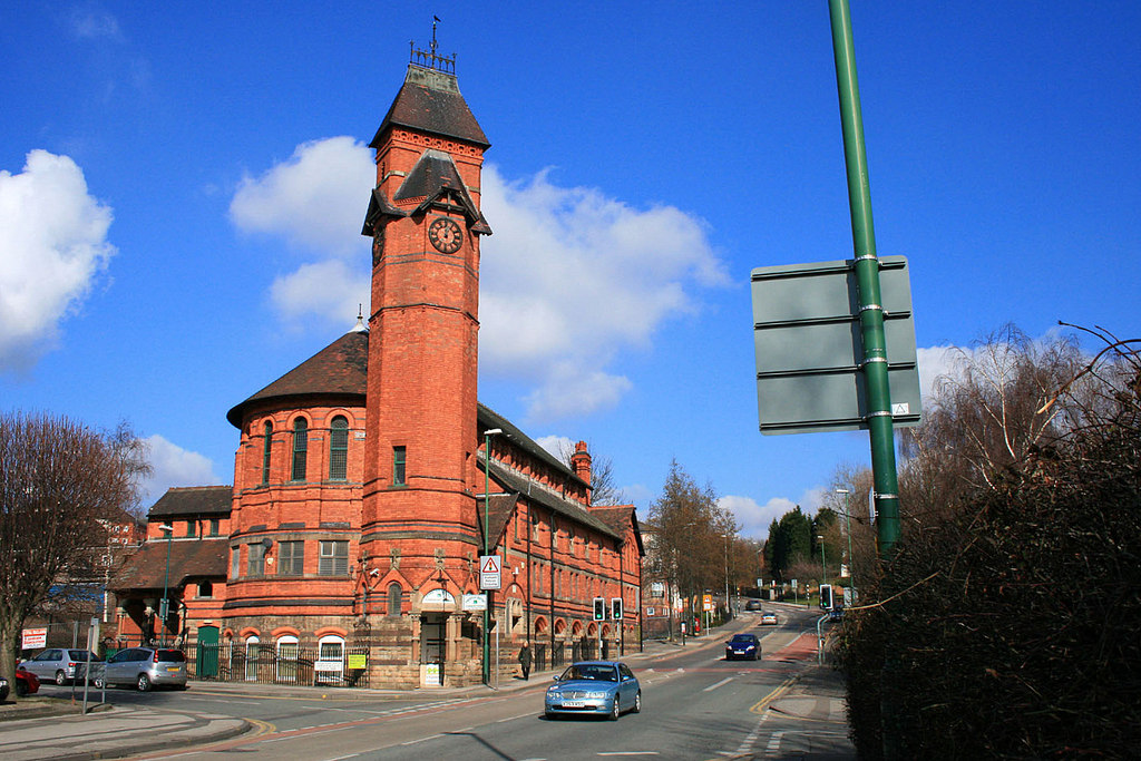 Woodborough Road Baptist Church The work of Watson Fothergill. I have given it its original name in the title, it is now The Pakistan Centre. It was completed in 1893 and listed Grade II in 1978.